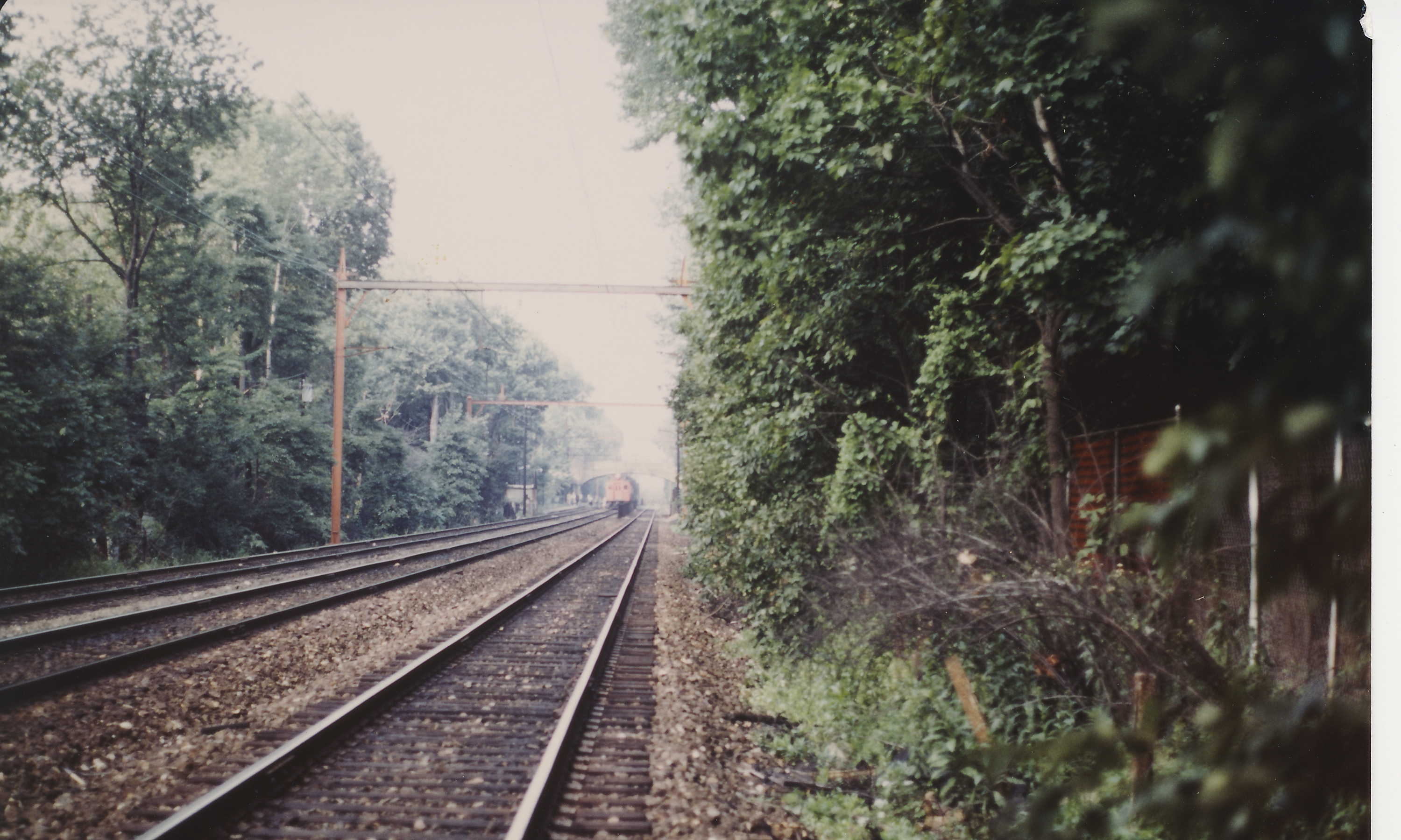 A photo of a Lackawanna MU taken at Mountain Station in South Orange, NJ in 1982.